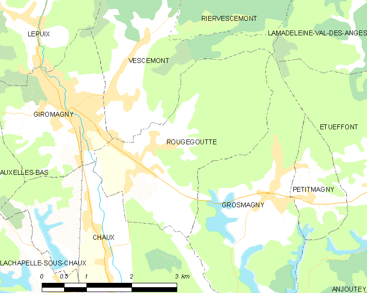 Map of French municipality Rougegoutte